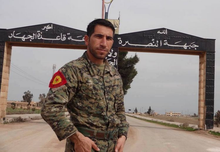 Polat Can, head of the information center of the Kurdish YPG in Tall Maruf, Rojava, Syria